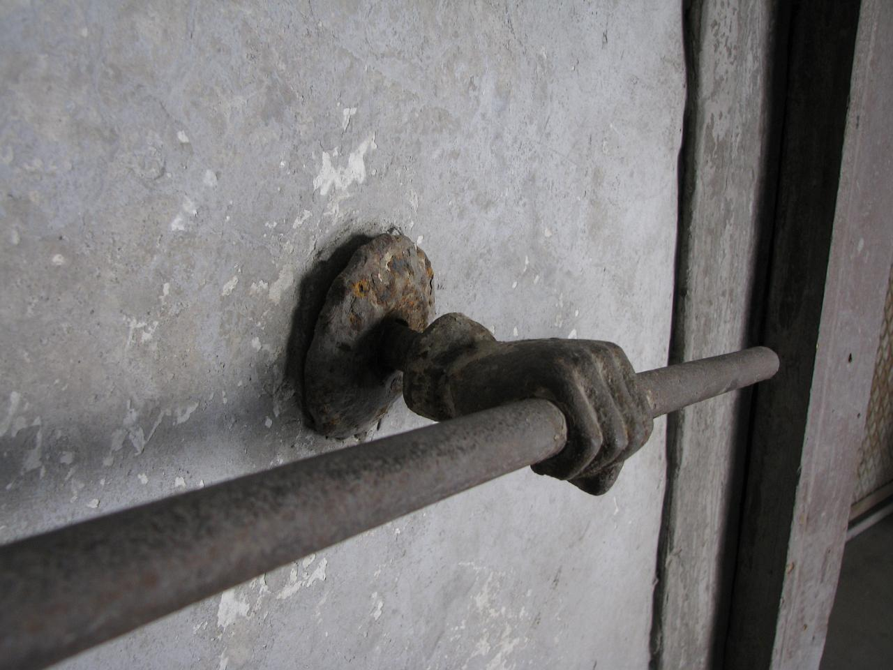 Palazzo Sanfelice, Naples (Napoli)